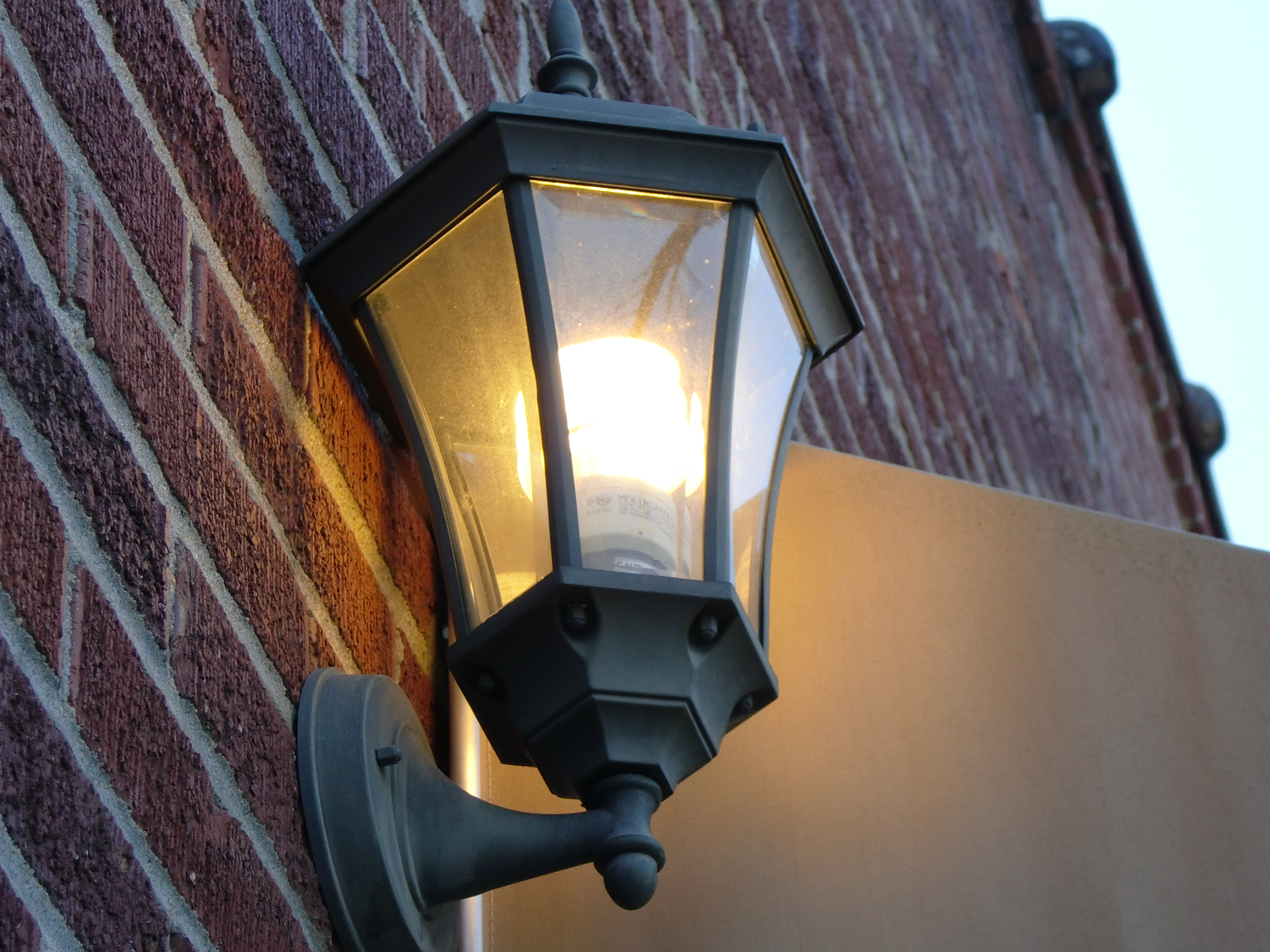 A compact fluorescent light bulb (CFL light bulb) in a black bracket lantern on a brick wall in Summerville, South Carolina.